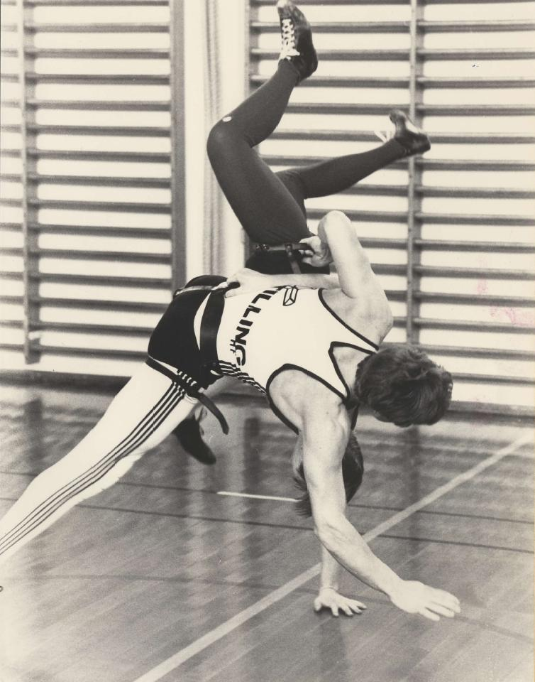 Icelandic Glima Championship Tournament 1985.